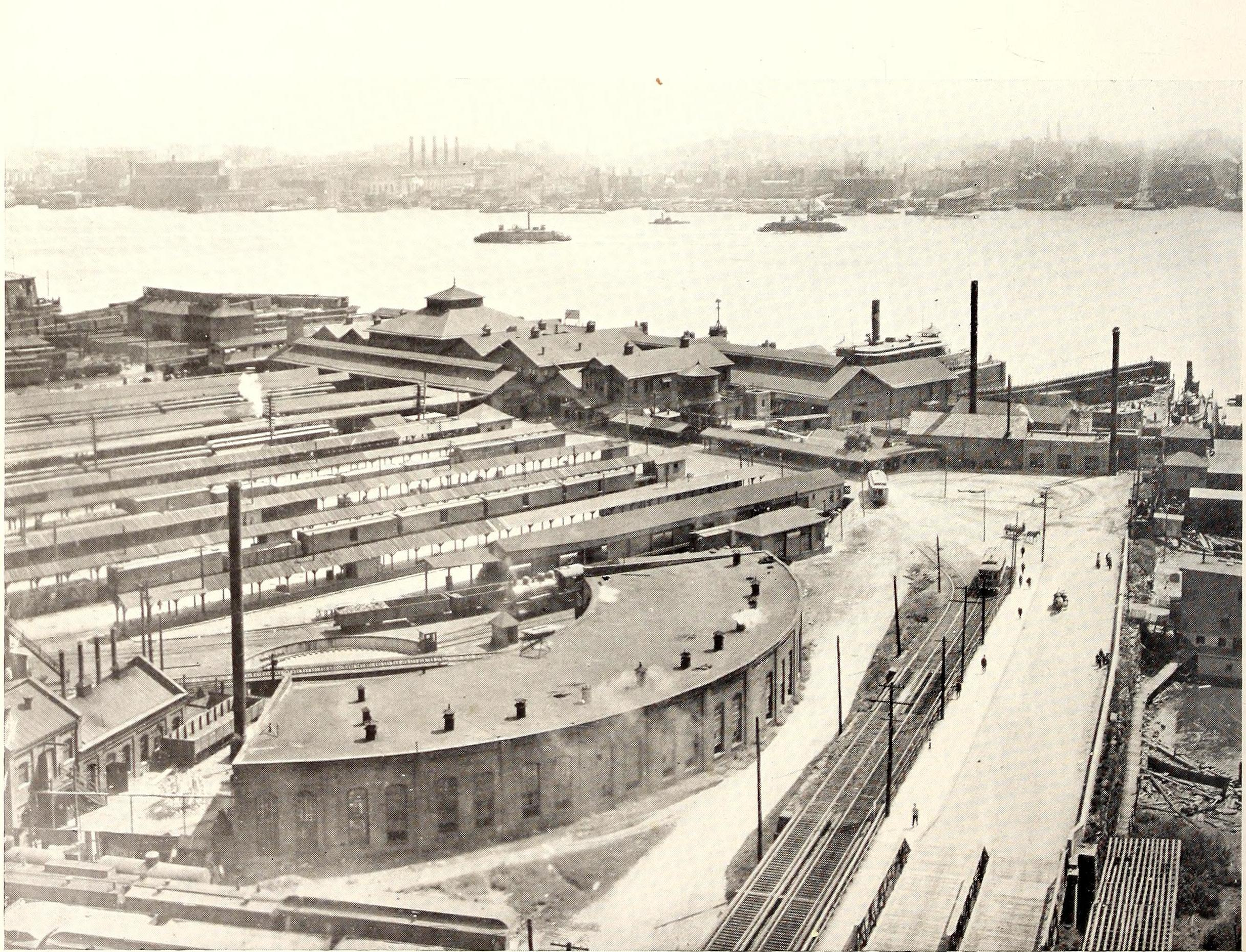 Loop at Weehawken Ferry Station of the West Shore Railroad, with the skyline of New York City from 42nd Street to 72nd Street Title: Electric railway journal Year: 1908 (1900s) Authors: Subjects: Electric railroads Publisher: (New York) McGraw Hill Pub. Co Text Appearing Before Image: View at Intersection of Broad and Market Streets, Newark Plate IV Text Appearing After Image: Loop at Weehawken Ferry Station of the West Shore Railroad, with Skyline of New York City from Forty-second Street to Seventy-second Street Plate V